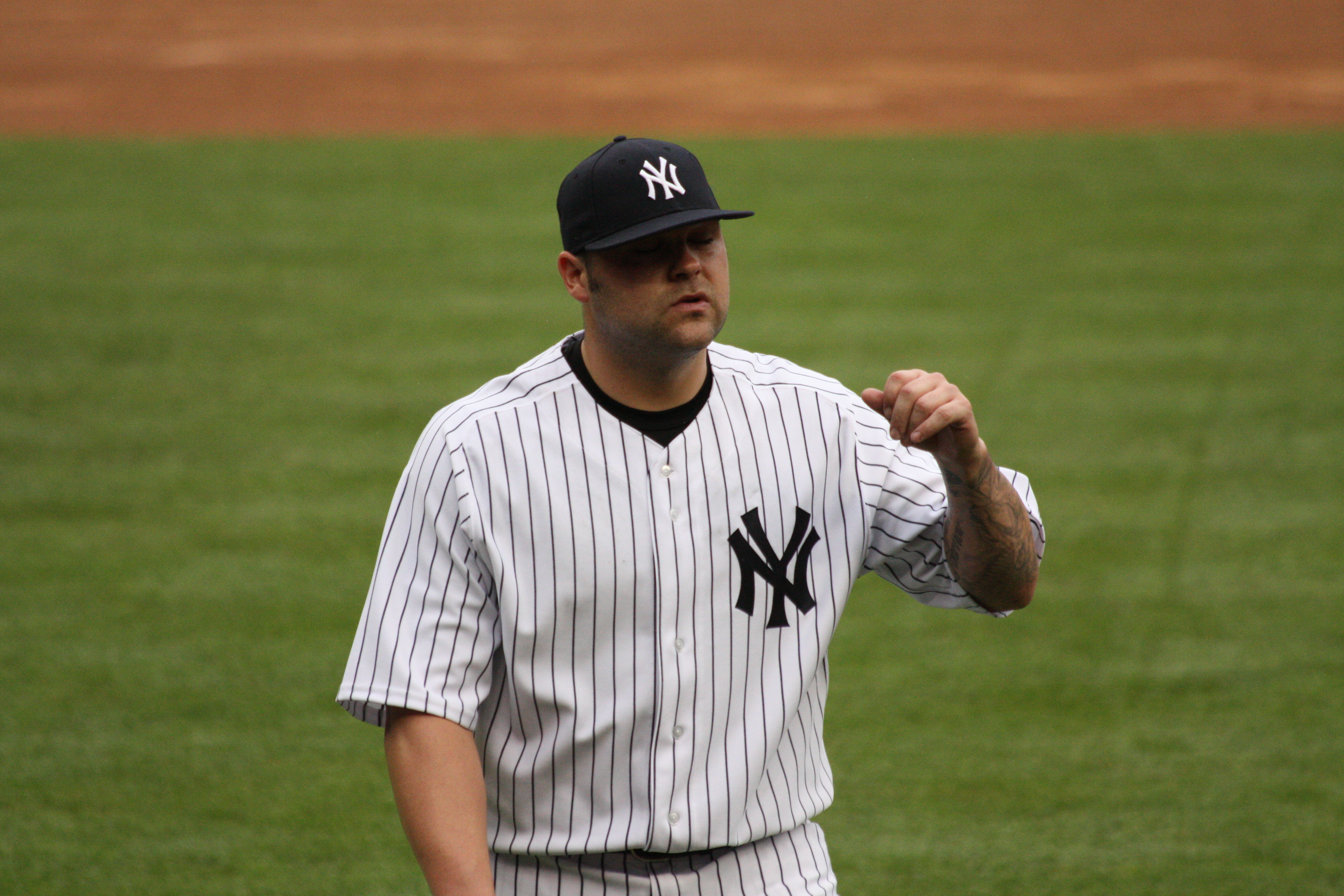 New York Yankees reliever Joba Chamberlain during a game against the Baltimore Orioles at Yankee Stadium in the Bronx, New York, NY on August 1, 2012